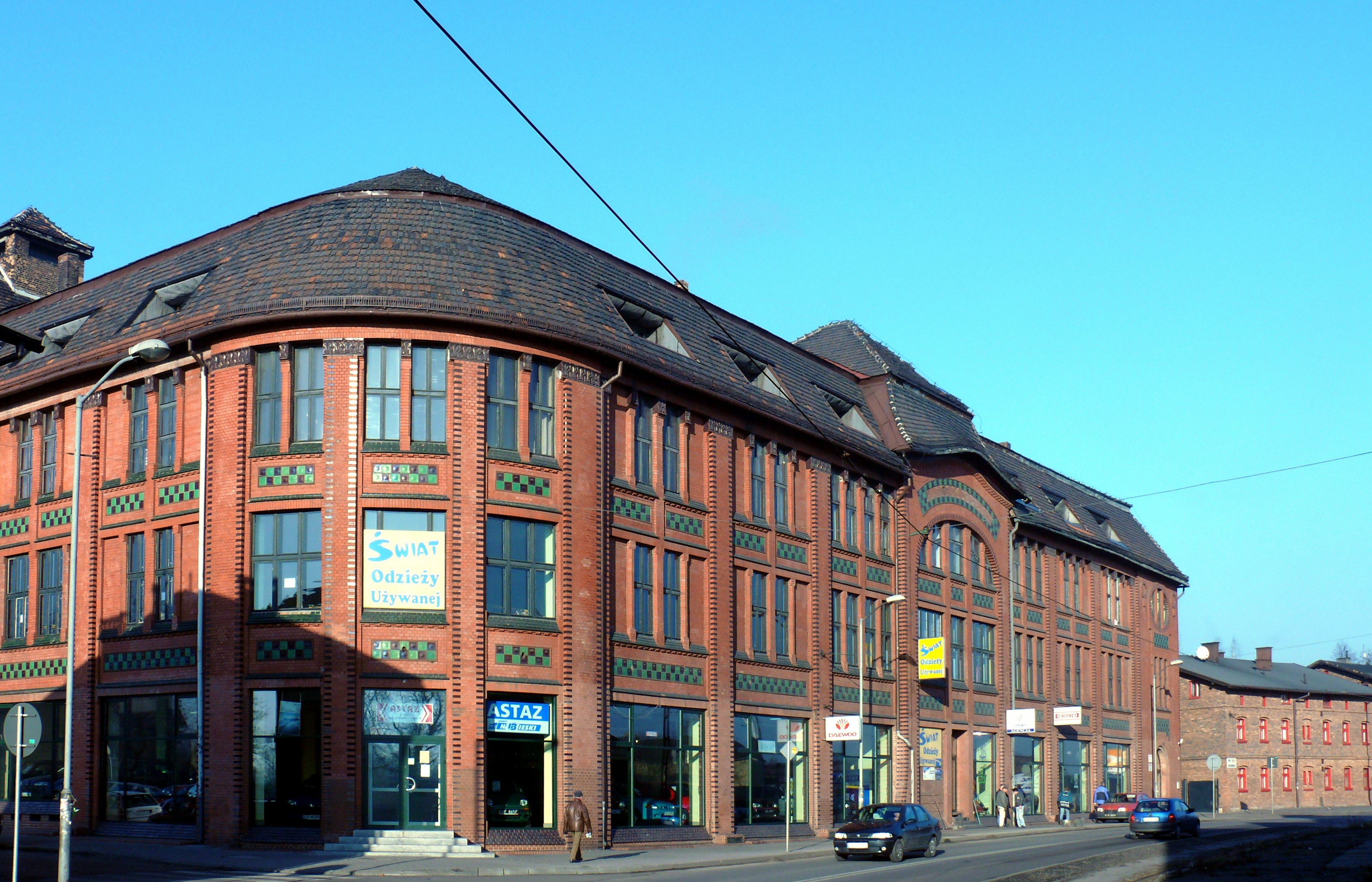 Department store Kaufhaus in Ruda Ślaska, Upper Silesia